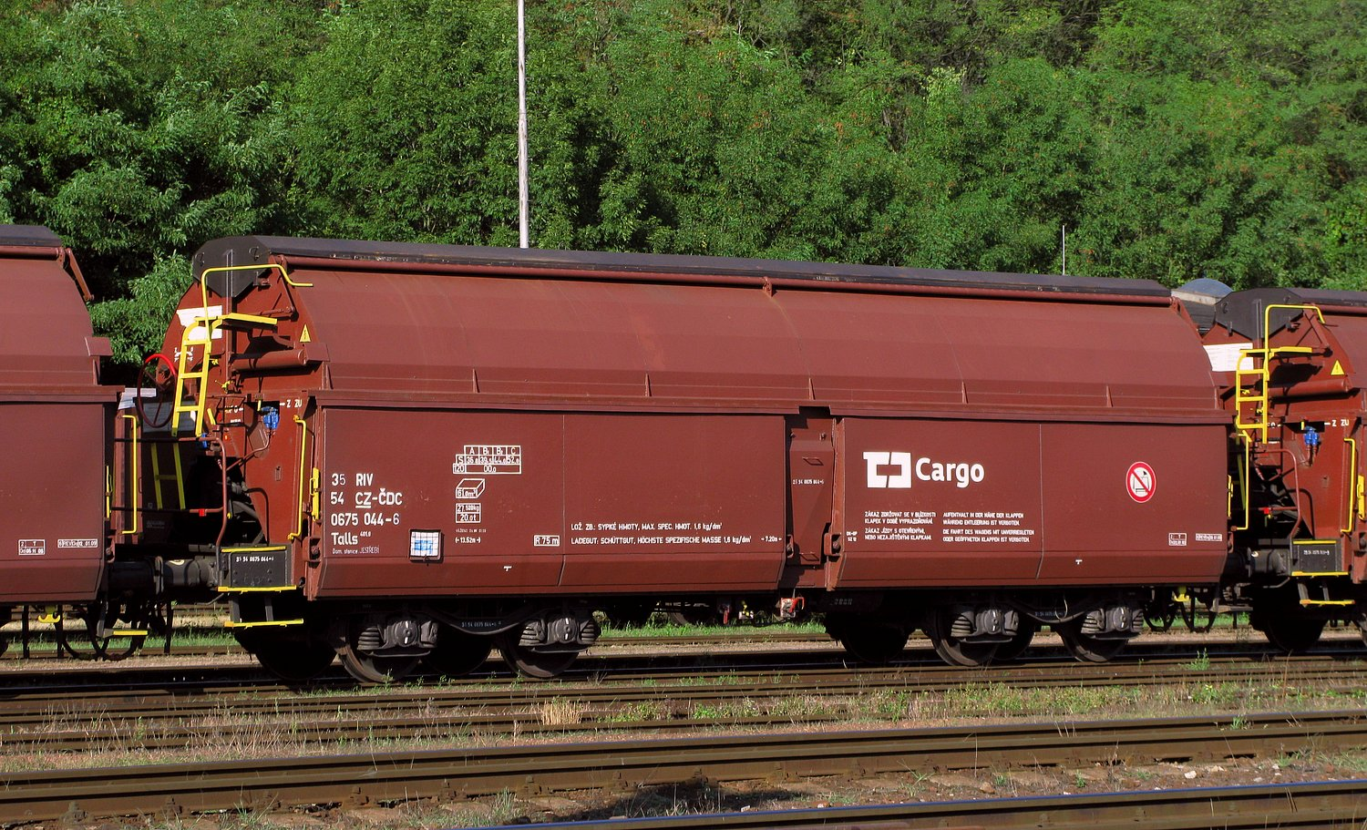 Talls 35 54 067 5 044-6 (rebuilt from a Falls hopper) - leased for the transport of the glass-sand from the quarry in Jestrebi, Czech rep. Spotted in Mlada Boleslav, mainstation (Czech rep.) (09/2009).